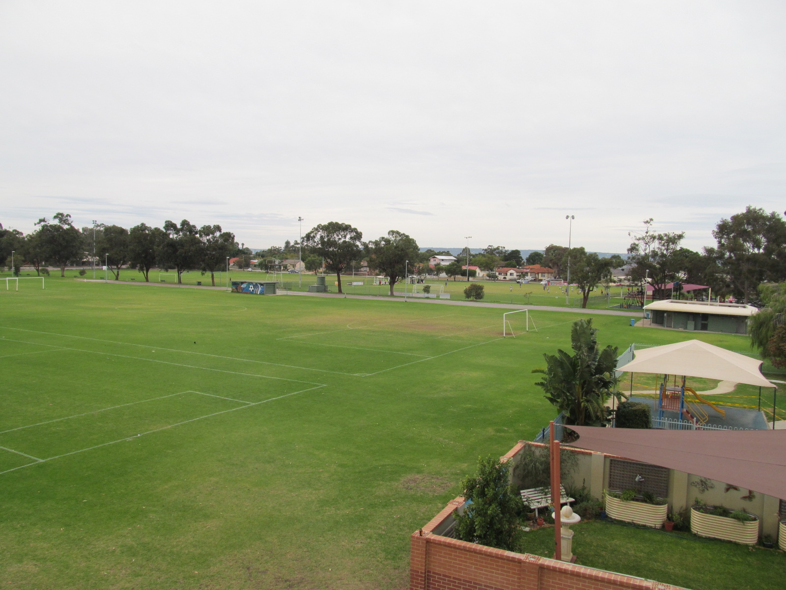 Ashfield Reserve, Ashfield, Western Australia.